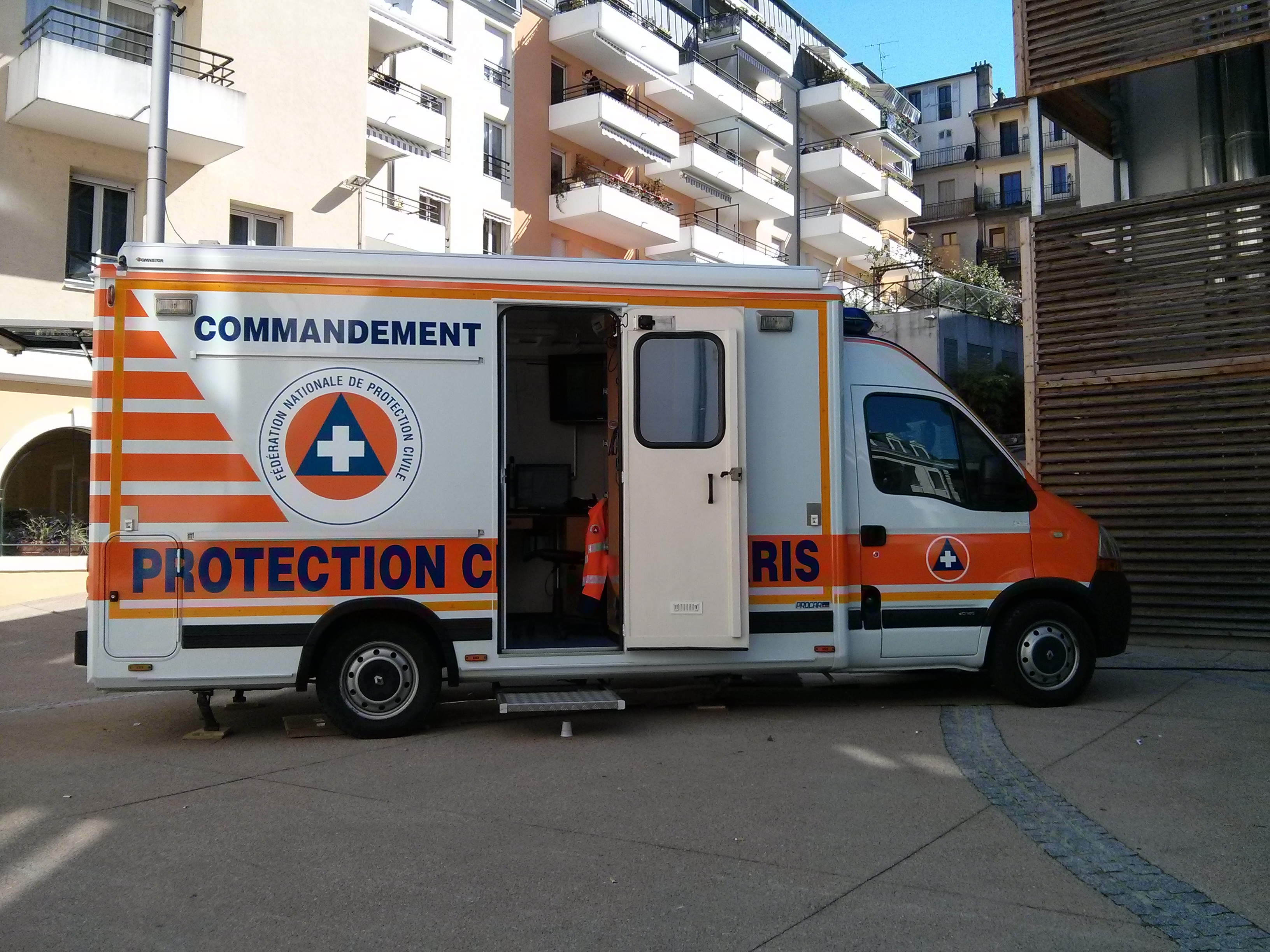 Mobile command post "Vectra 75" of french civil protection in Paris